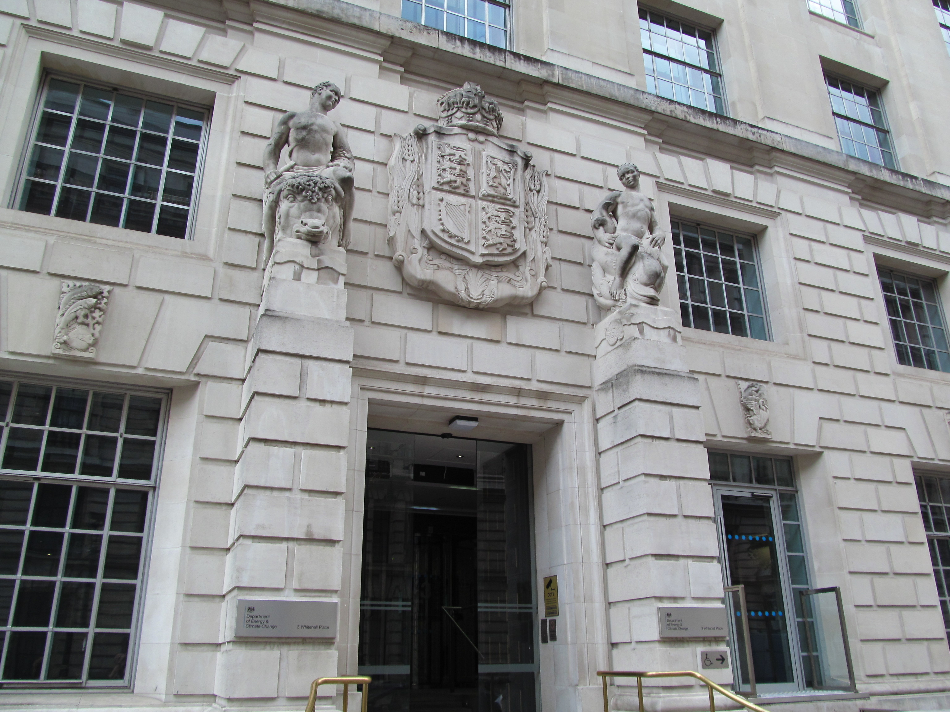 London 074 Dept of Energy 3 Whitehall Place